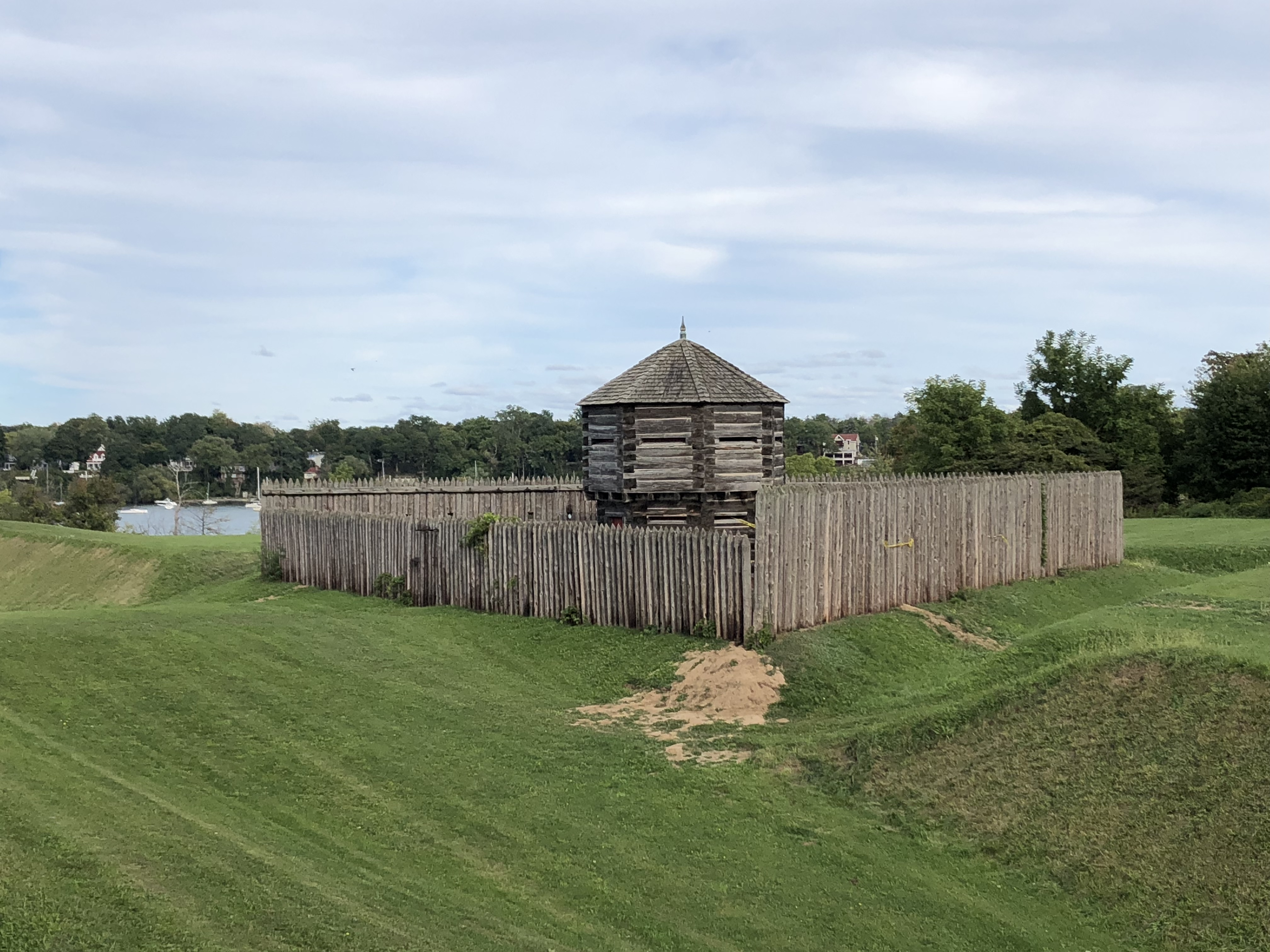 Fort George external structure. There is a passageway to this structure underground. Soldiers could support defence from this structure.